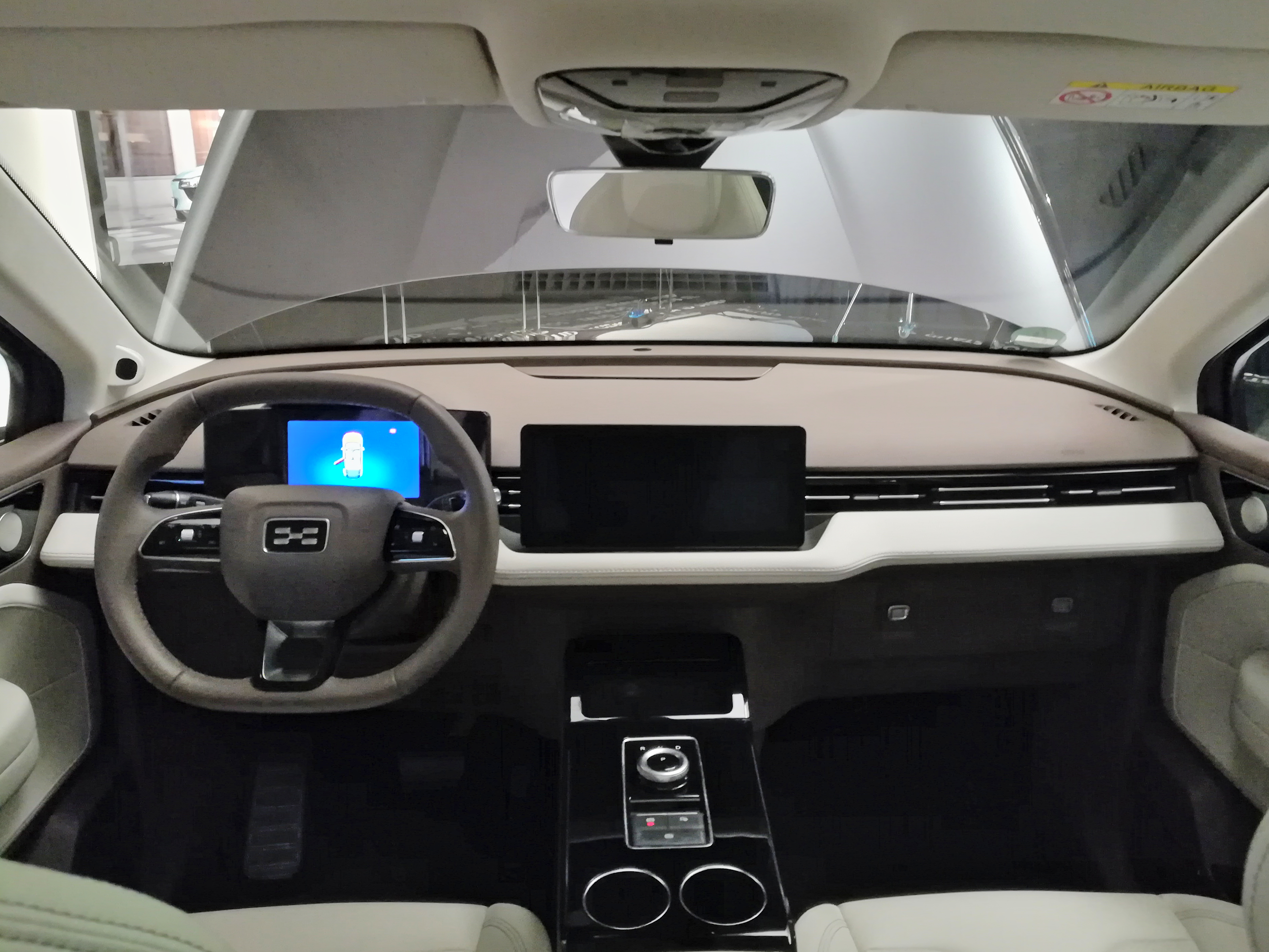 Aiways_U5 in Leonberg